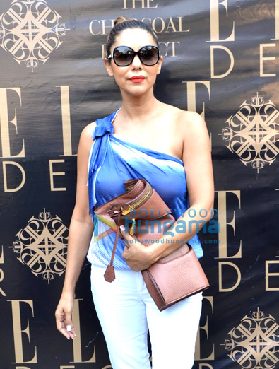 Gauri Khan at the new collection launch of Susanne Khan's The Charcoal Project in Mumbai